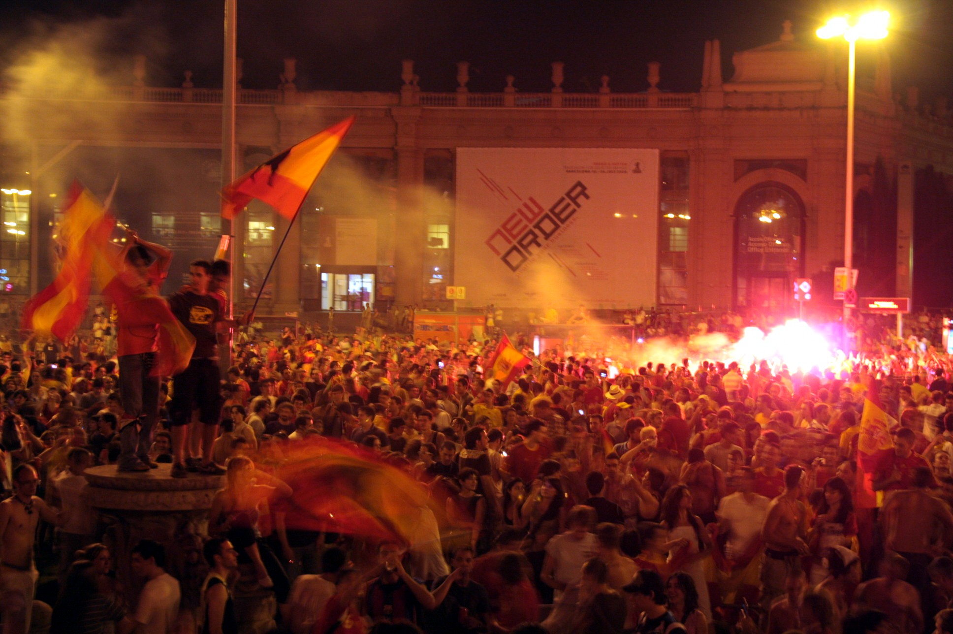 Spanish supporters celebrating the victory of Spain in the Euro 2008 in Barcelona´s Plaza Espanya.